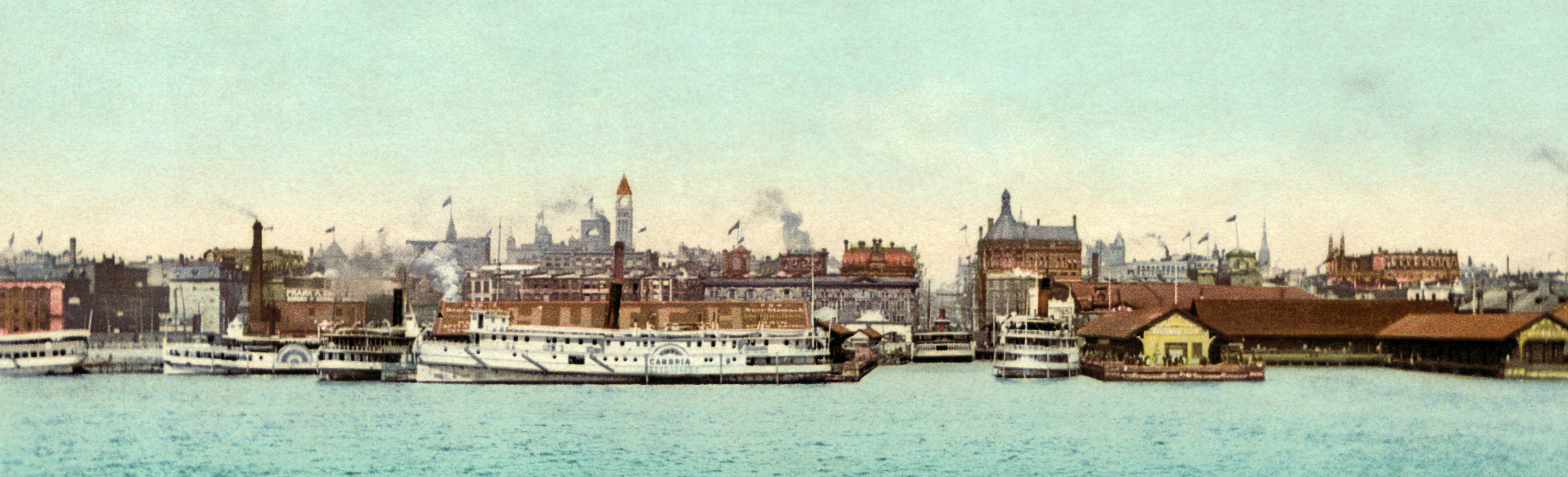 Photochrom postcard of Toronto, as seen from Toronto Bay, 1901